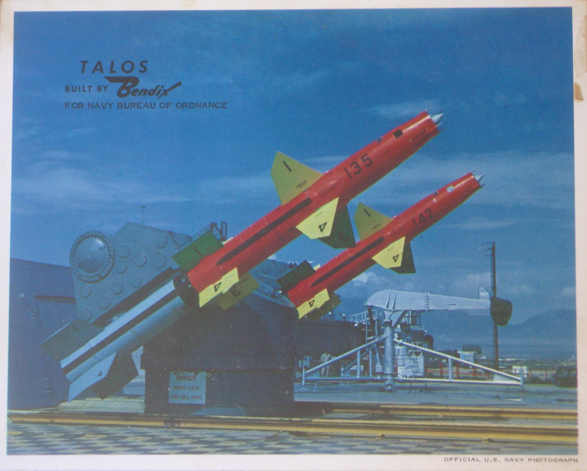 RIM-8 Talos surface to air missile built by Bendix Corporation in test launcher at White Sands Missile Range New Mexico